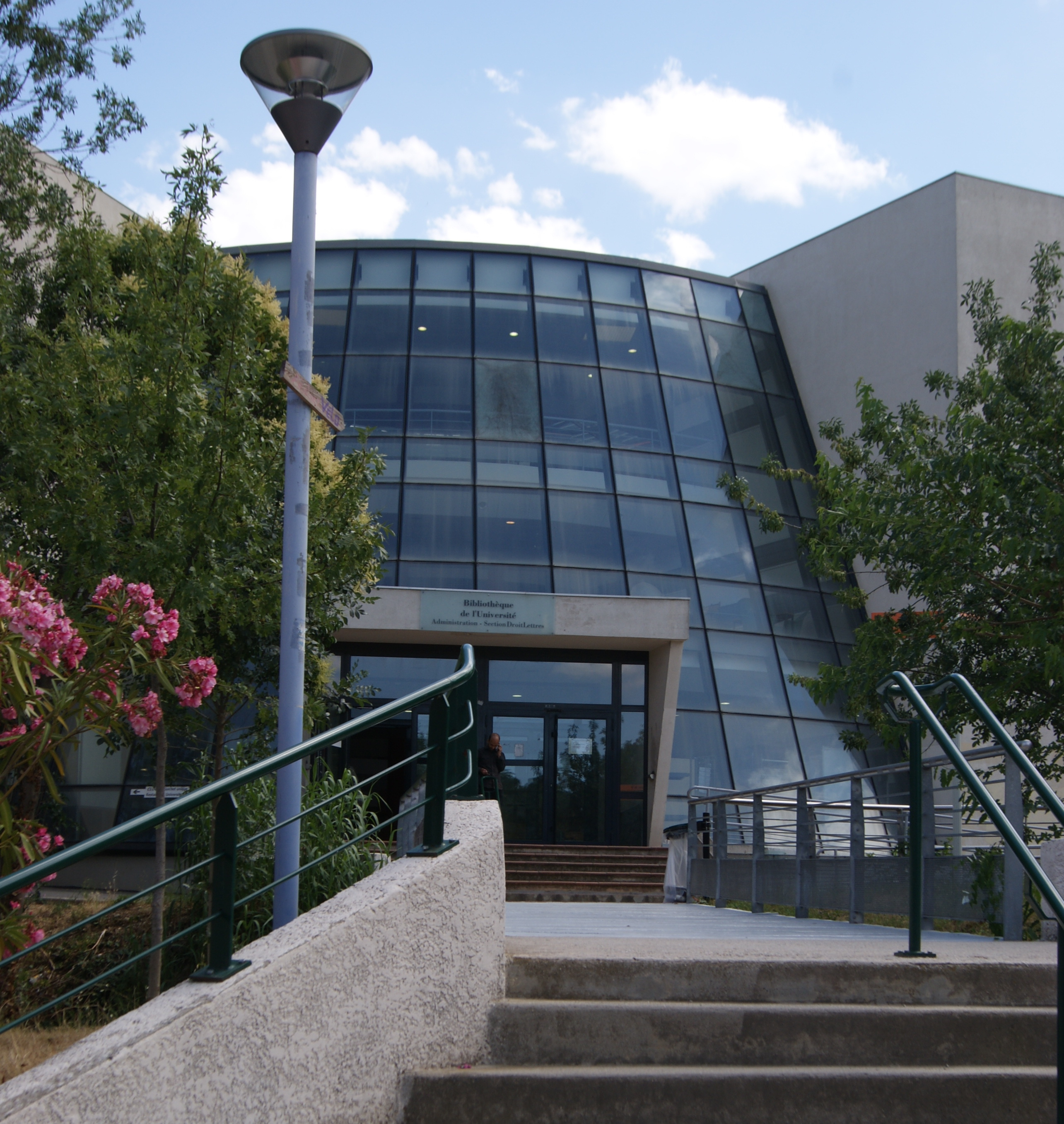 Library of the University of Perpignan - Via Domitia